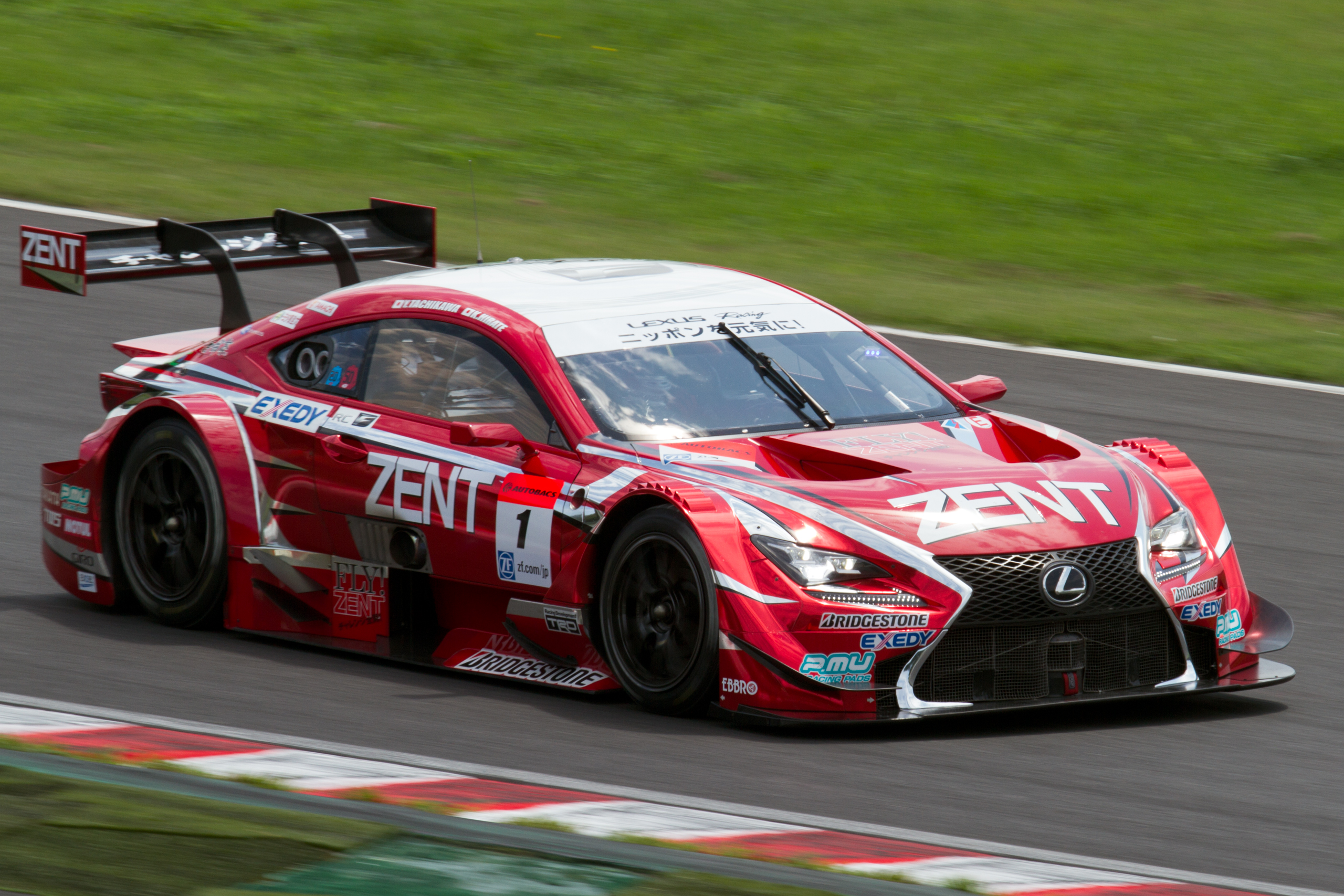 Super GT 2014 Rd.6 Suzuka 1000km: Kohei Hirate (Cerumo)